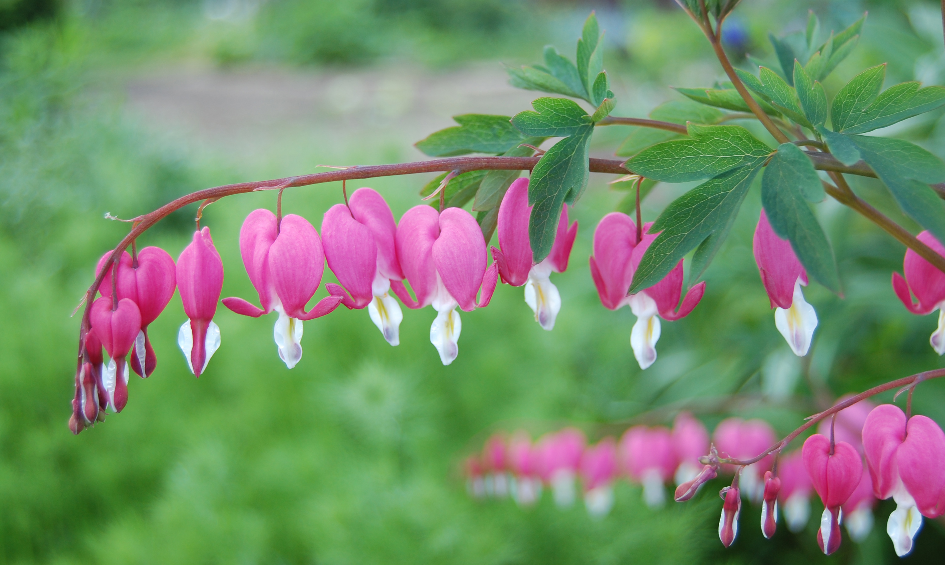 The Venus's car, bleeding heart or lyre flower (Dicentra spectabilis) is a plant from the family of the Fumariaceae.